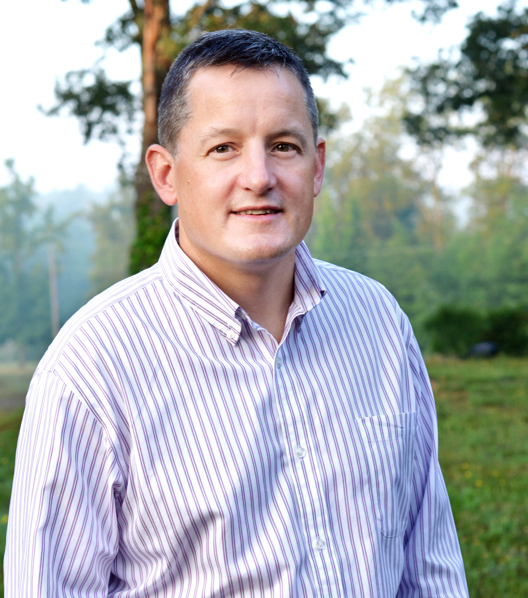 Official photo for the Westerman for Congress campaign.